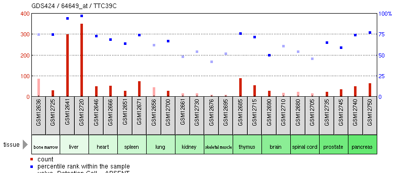 This is a graph of TTC39C expression in samples from different human tissues. The bars indicate the quantity of TTC39C in the sample and the dots represent the percentile rank of TTC39C within each sample.